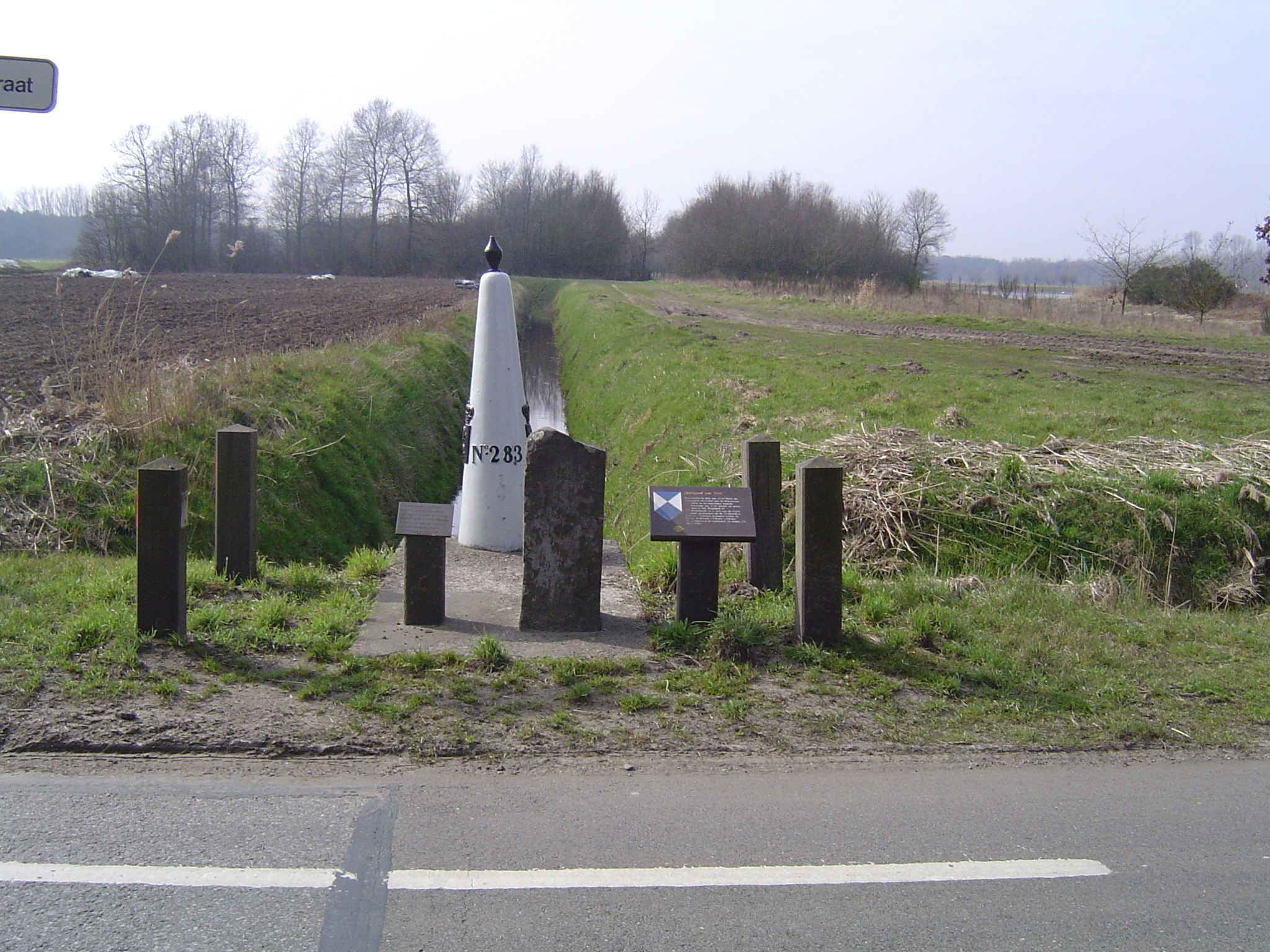 The border between Stekene in Belgium (left of the ditch) and Heikant (Zeeland) in the Netherlands (right) where it turns from running northwestward along the road in the foreground (Hellestraat, BE / Ellestraat, NL) to southwestward along the ditch. The white national border pillar was erected in the 1840s. In front of it stands an older Austrian Netherlands border stone dating from 1720.